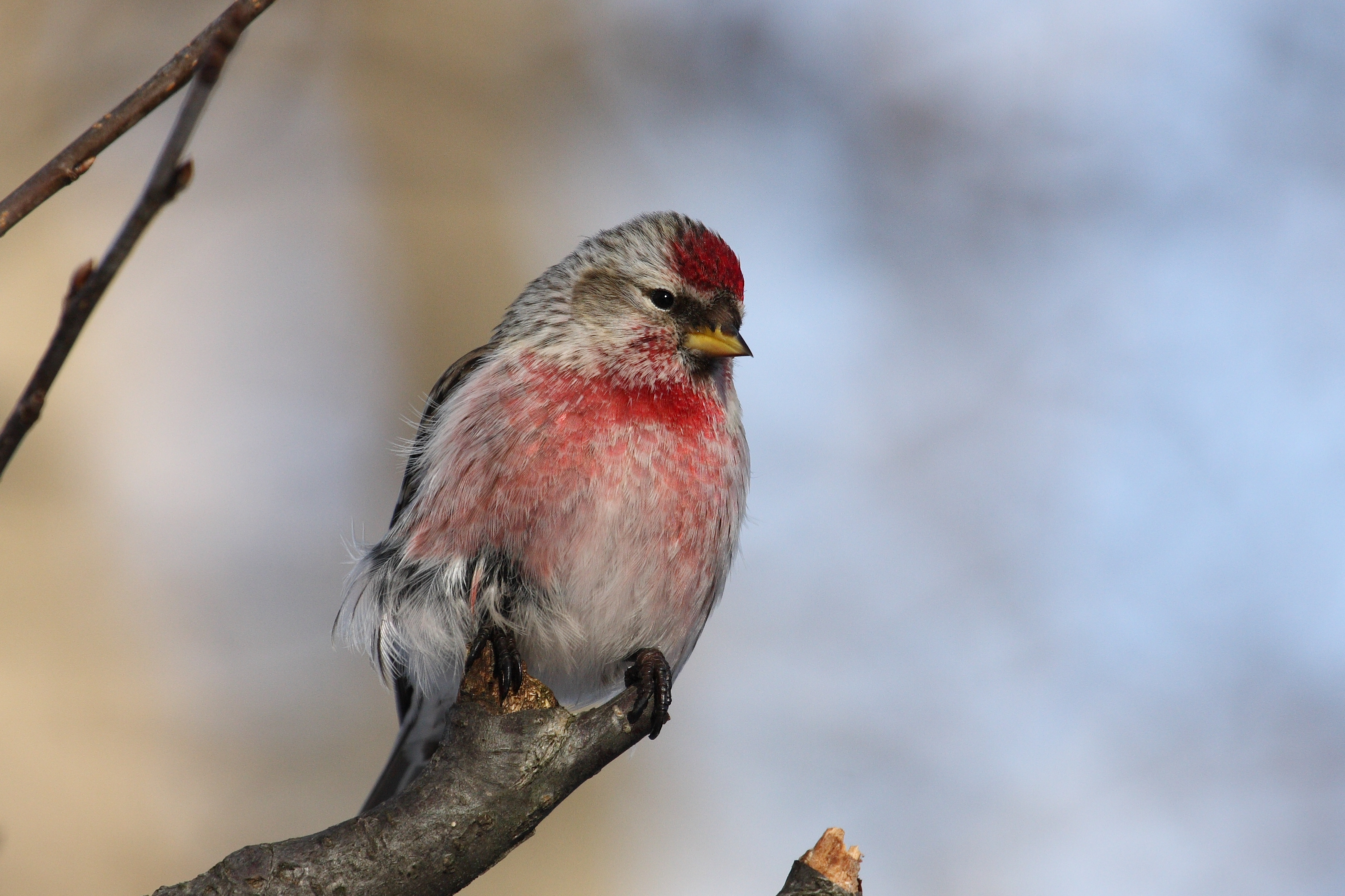 Common Redpoll (Carduelis flammea), male, Cap Tourmente National Wildlife Area, Quebec, Canada.